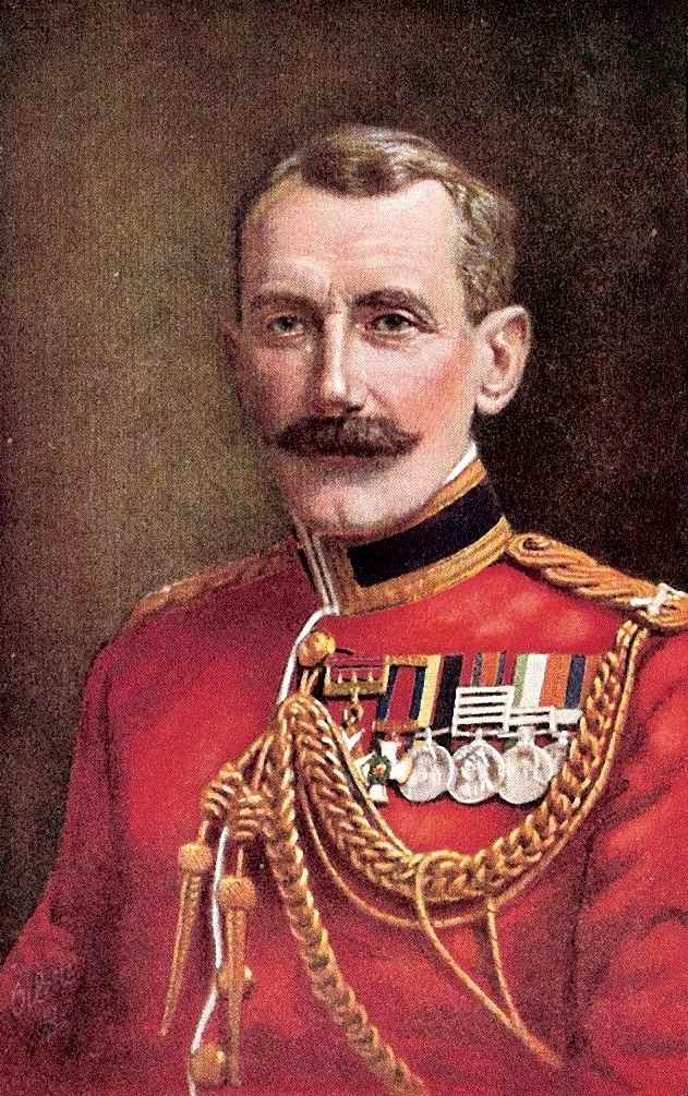 Portrait of Brigadier-General Sir David Henderson. The original image, from which this has been cropped to remove the border, bore the note "GENERAL SIR DAVID HENDERSON, C.B., D.S.O. IN COMMAND OF THE ROYAL FLYING CORPS". This particular version of the image was published by Raphael Tuck & Sons as an "Oilette" (No.8741).